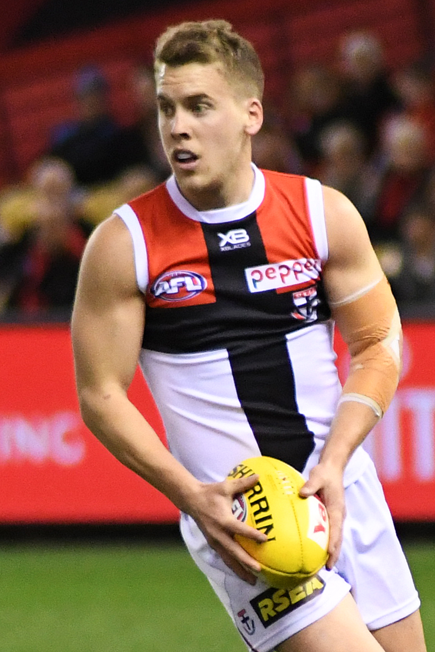 Jack Lonie of St Kilda during the 2018 AFL round 21 match between Essendon and St Kilda at Etihad Stadium on Friday, 10 August 2018 in Melbourne, Victoria.